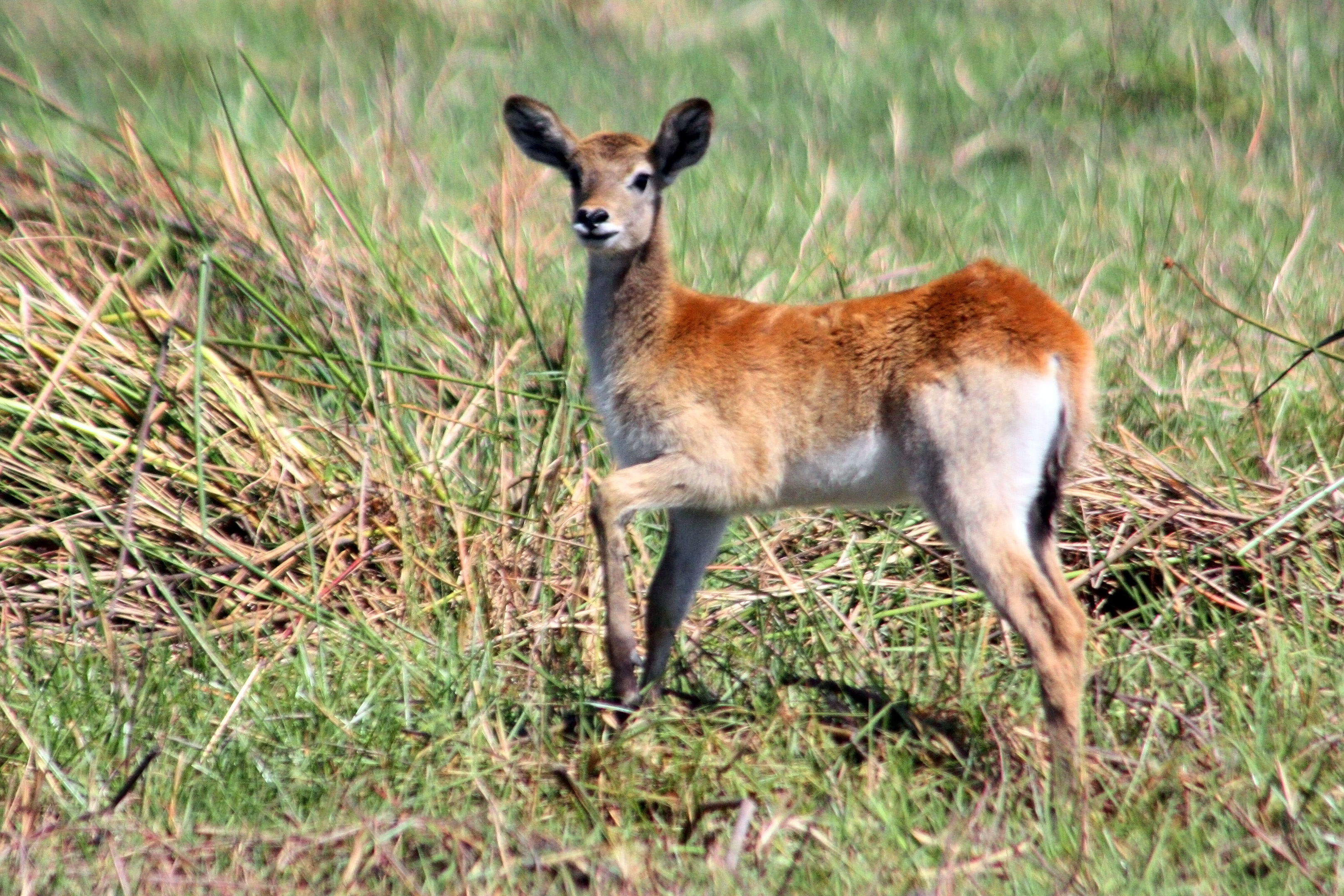 Red lechwe (Kobus leche leche) juvenile, Botswana